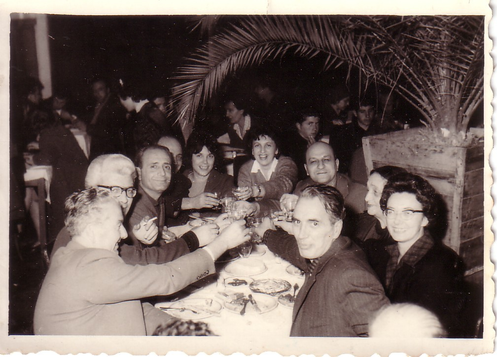 social gathering of my father's best friends, i.e. (left to right): Mladen Isaev, Varban Stamatov, Emil Manov, Pavel Vejinov, Nina Vejinova, Dida Manova, Ducho Mundrov, Dora Gabe, Leda Mileva, Nikolay Popov)